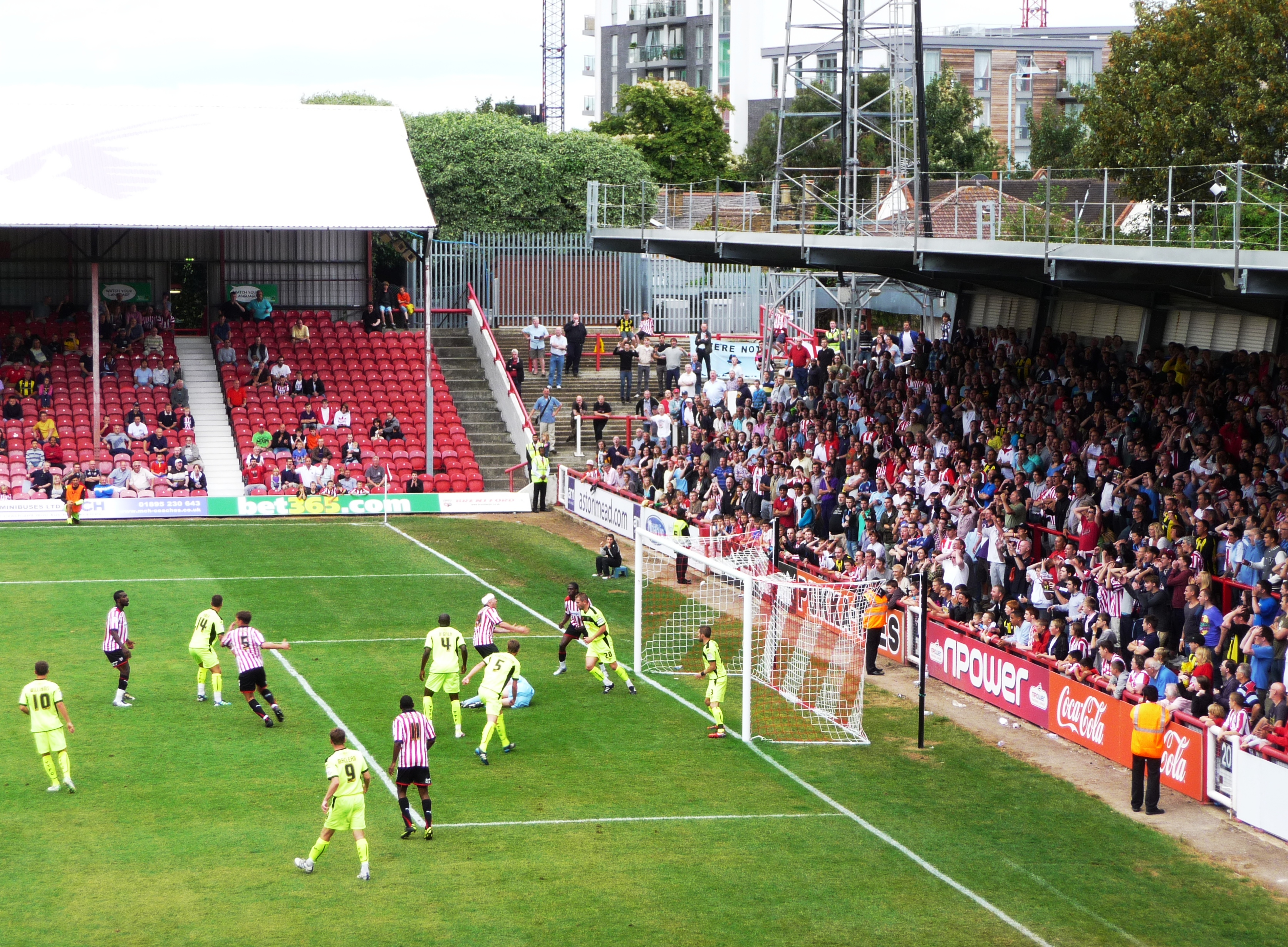 Brentford and Yeovil Town contesting a corner kick during a football match on August 2011.